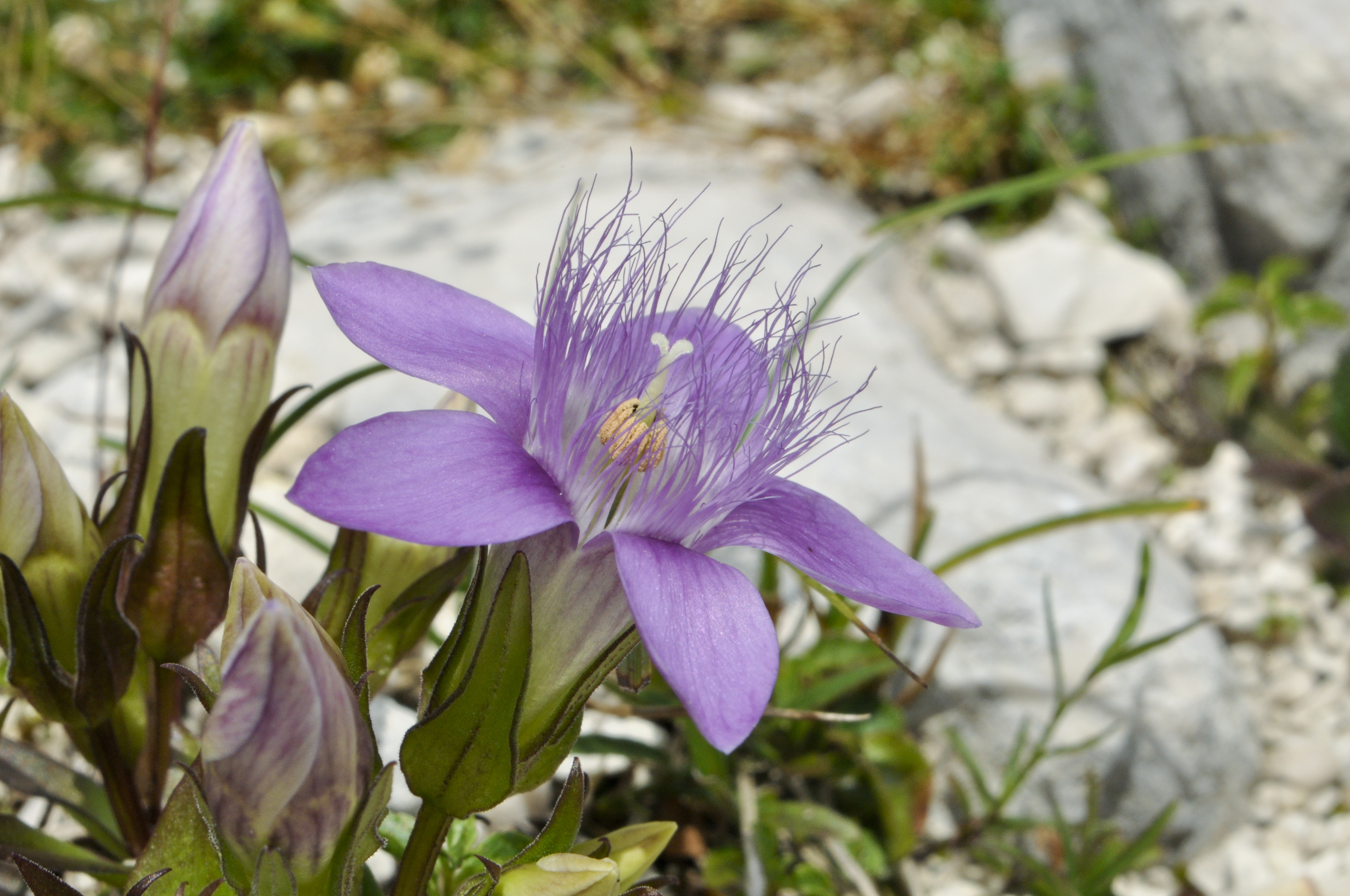 Gentianella aspera in Totes Gebirge, Austria